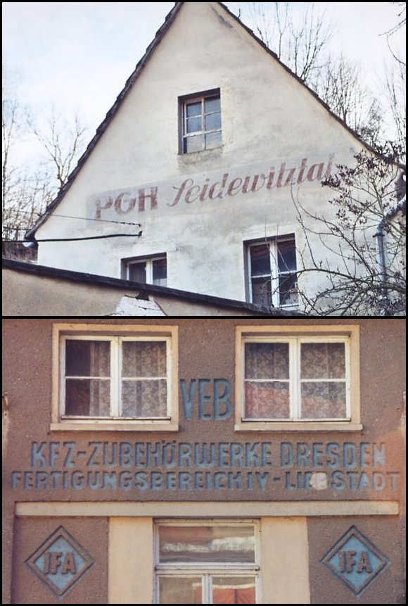 This image shows old business labels in Liebstadt in Saxony, Germany.